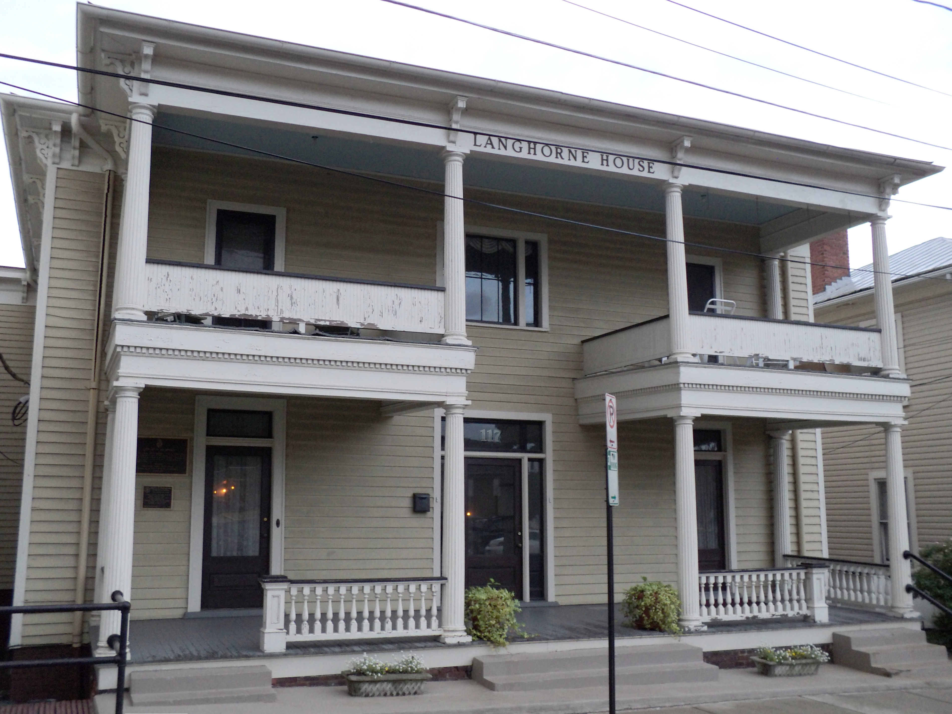 Exterior view of the Langhorne House, 117 Broad Street, Danville, Virginia, birthplace of Lady Nancy (Langhorne) Astor.